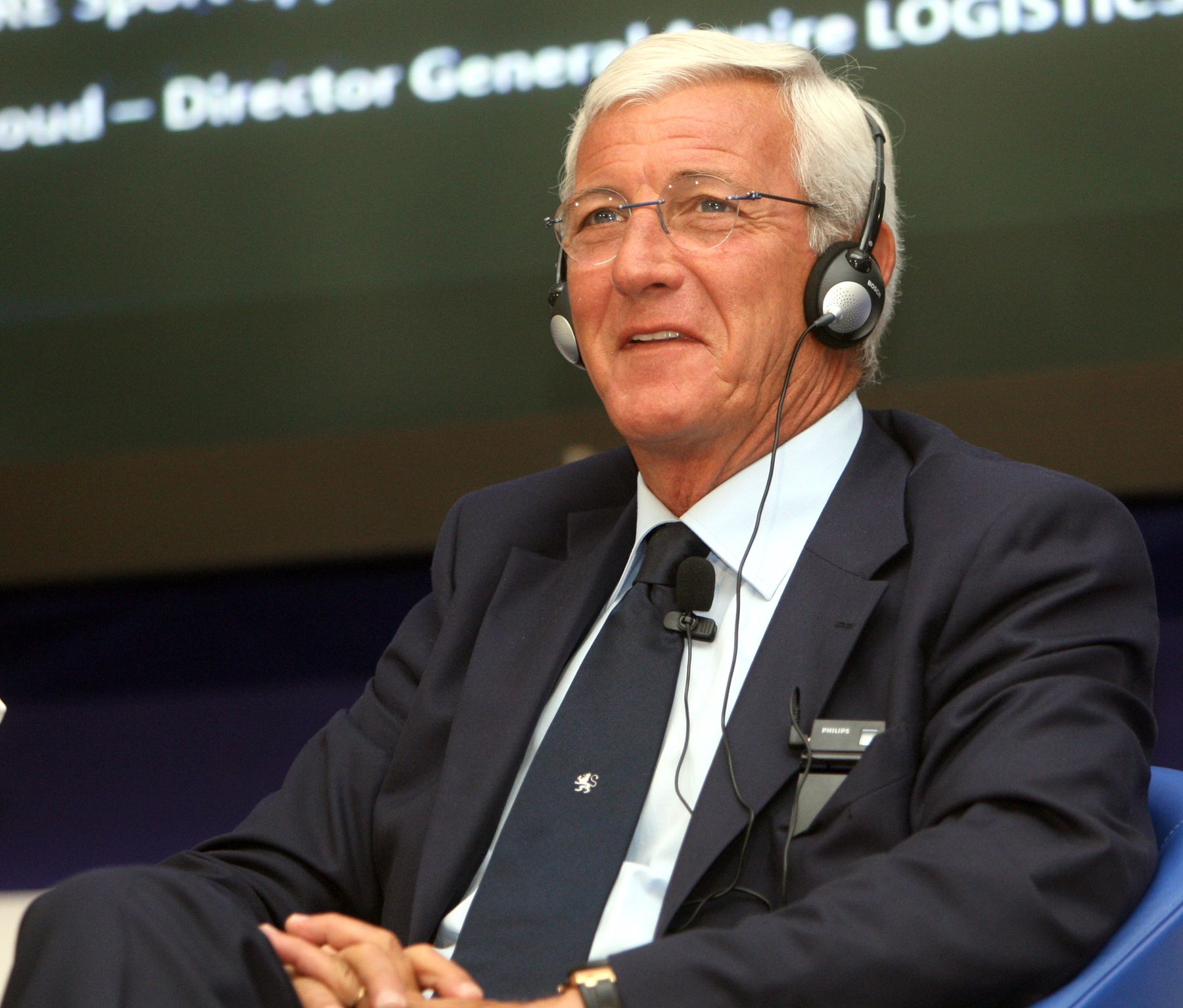 Former coach Marcello Lippi attends a session at the Aspire4Sport Congress and Exhibition at the ASPIRE Academy.